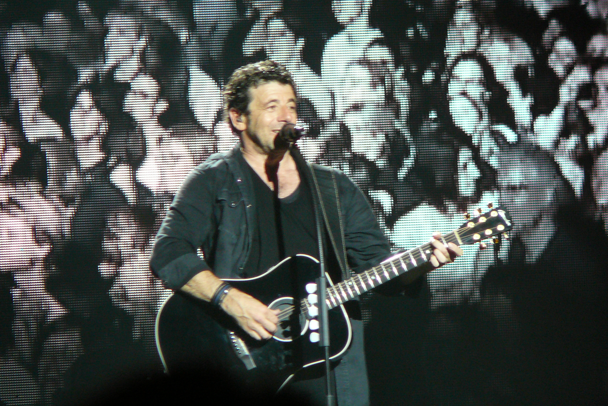 French singer Patrick Bruel on the stage of Forest National, in Brussels, in Belgium, on 14th May 2019.